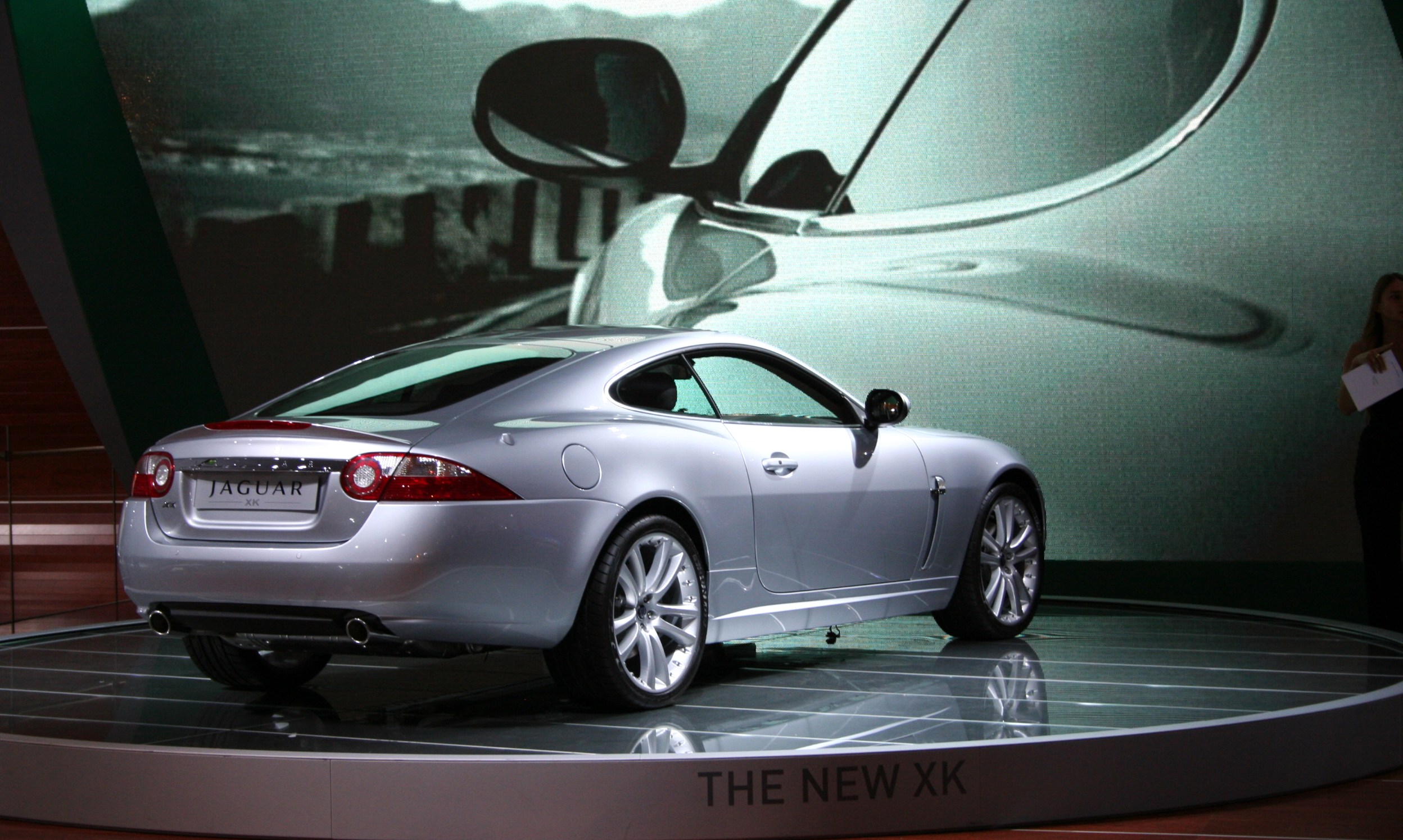 Jaguar XK on IAA 2005 Photo taken by Ygrek, 17th September 2005.